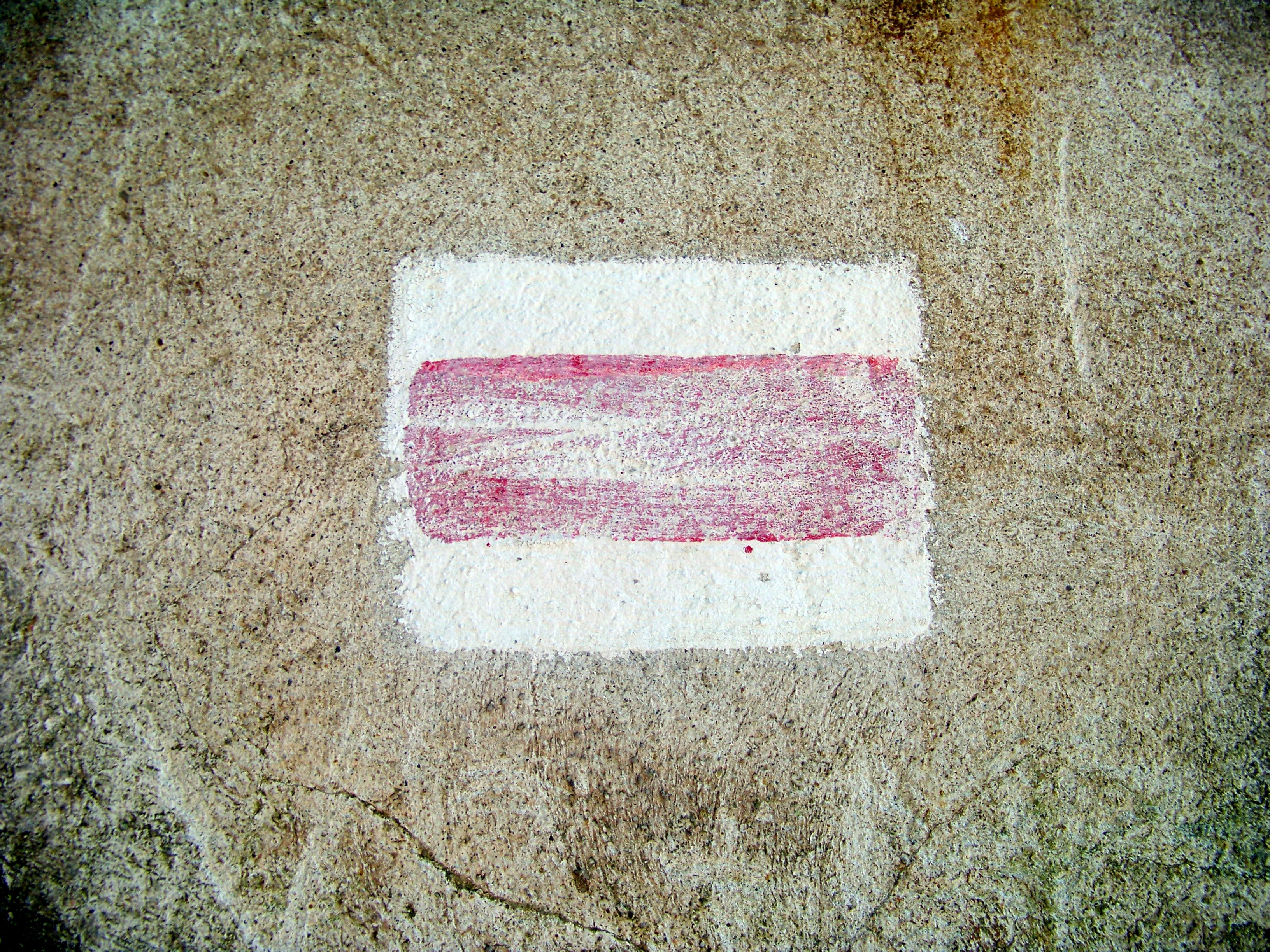 Svatý Jan pod Skalou, Beroun District, Central Bohemian Region, the Czech Republic. Hiking signs.